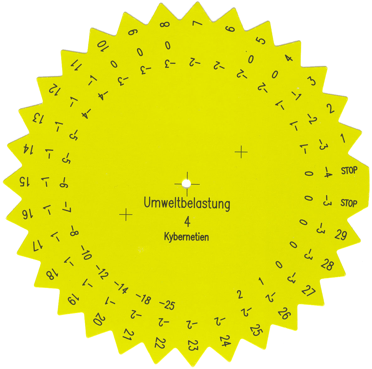 Wheel of game Ökolopoly